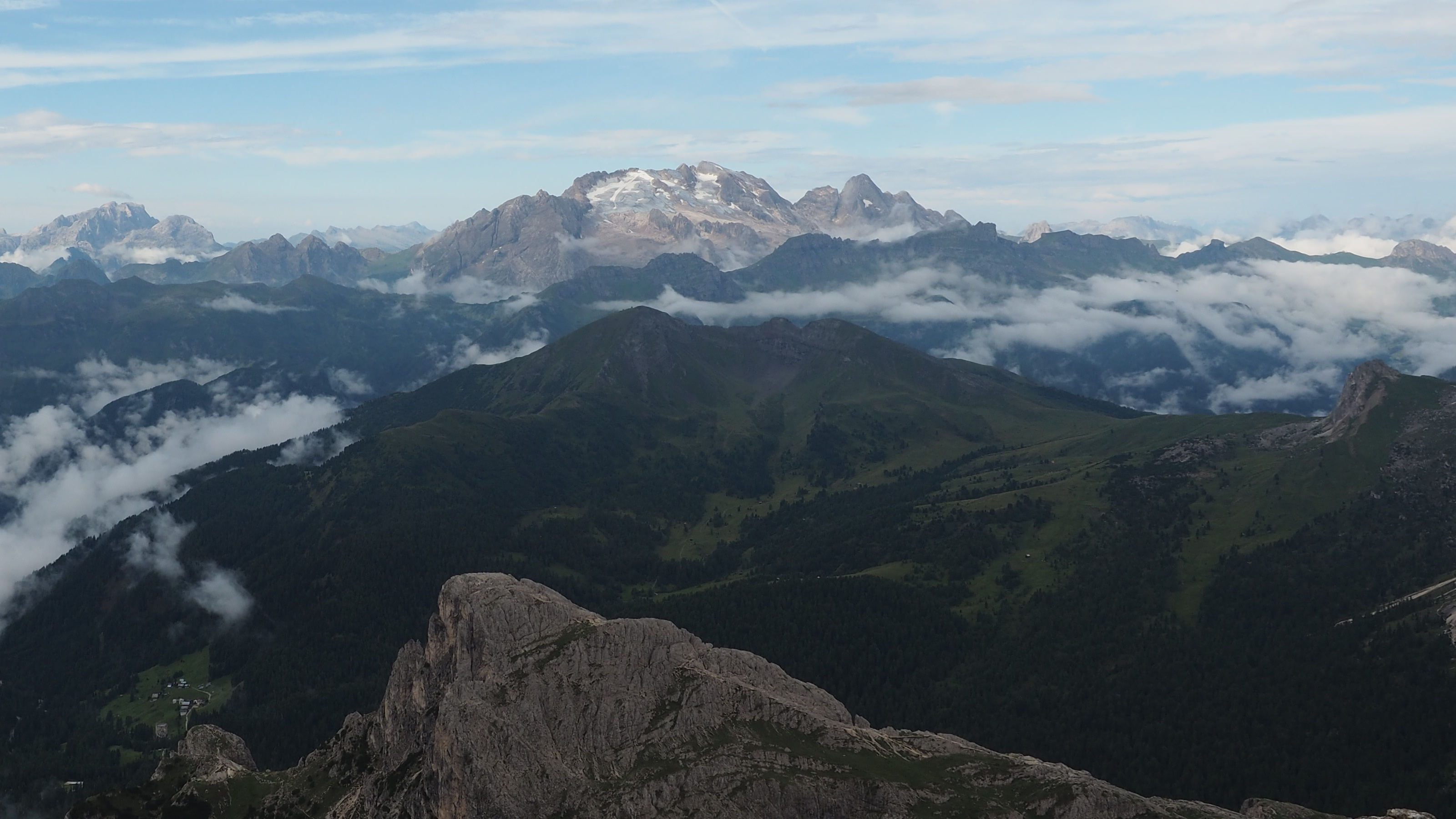 Marmolada, Col di Lana and Sass de Stria from Lagazuoi.